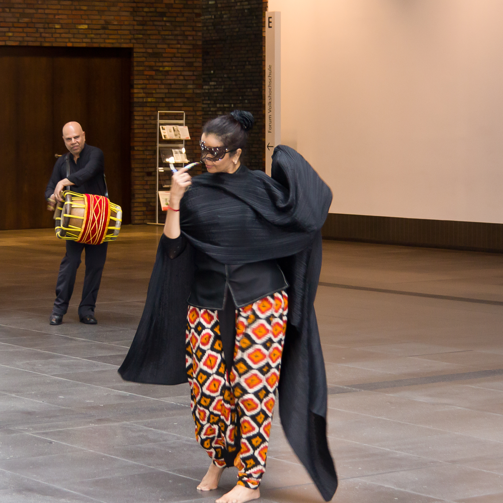 Press conference in the "Rautenstrauch-Joest-Museum" Cologne with die Indian artists Anita Ratnam and Maya Krishna Rao. Photo: Anita Ratnam showing a part of her performance